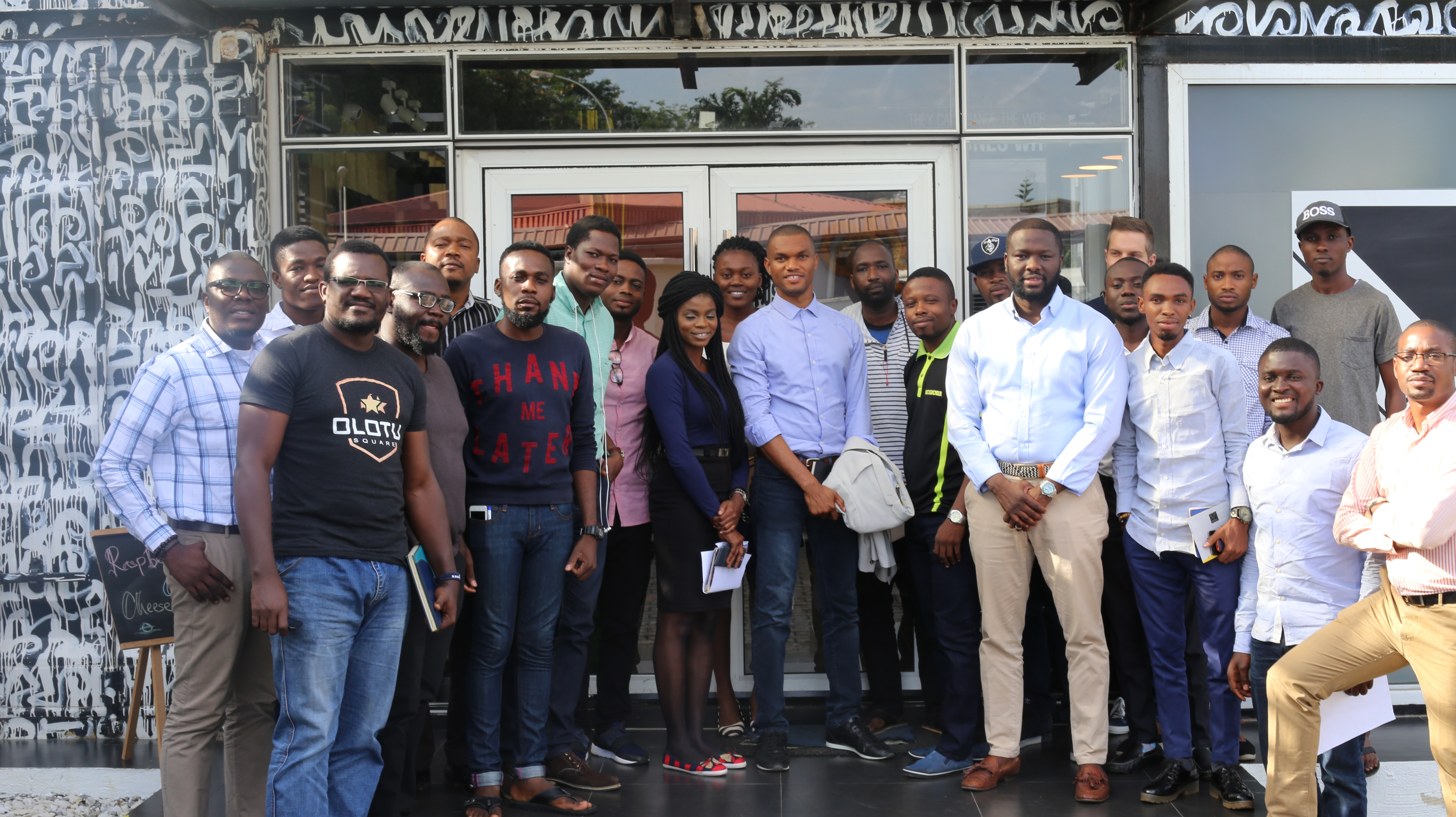 Kola Aina, the acceleration team and the cohort 2 during the accelerator program.